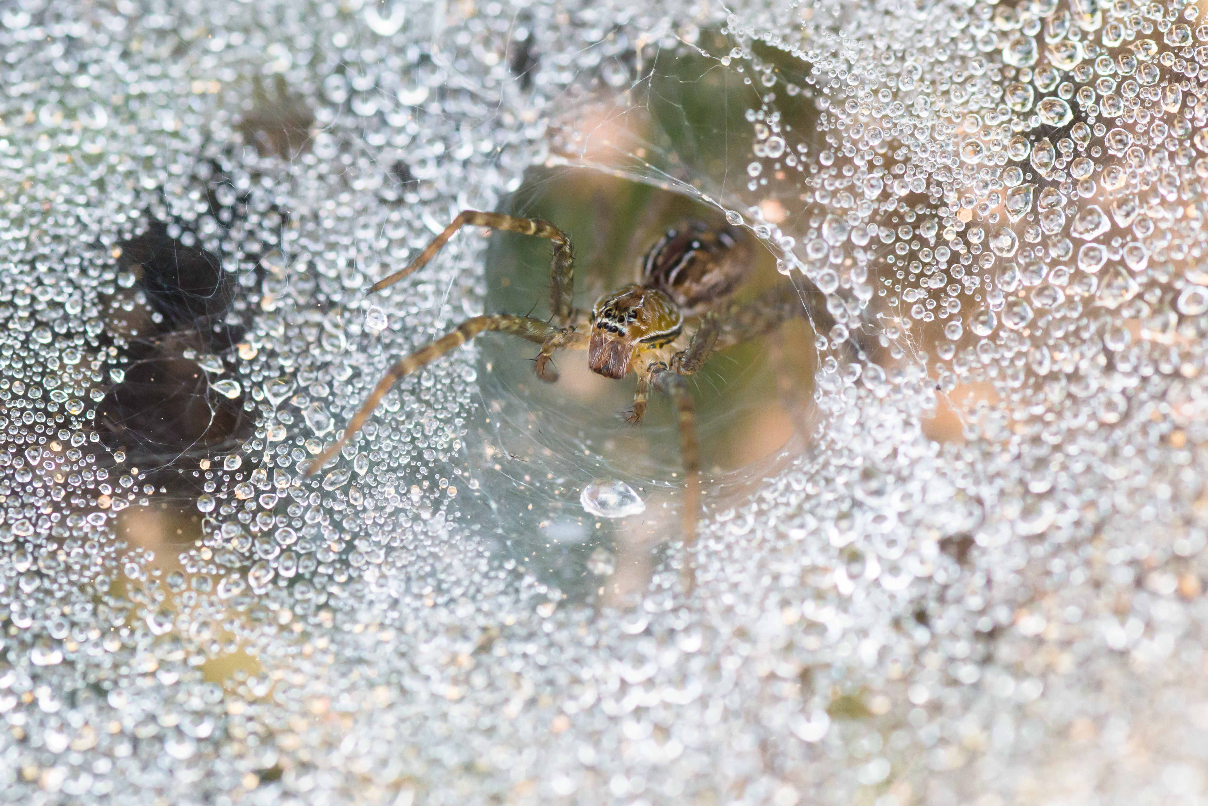 Hippasa holmerae, Lawn wolf spider - Kaeng Krachan National Park, Thailand